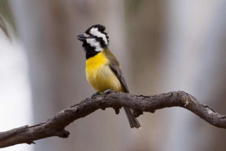 Eastern Shrike-tit